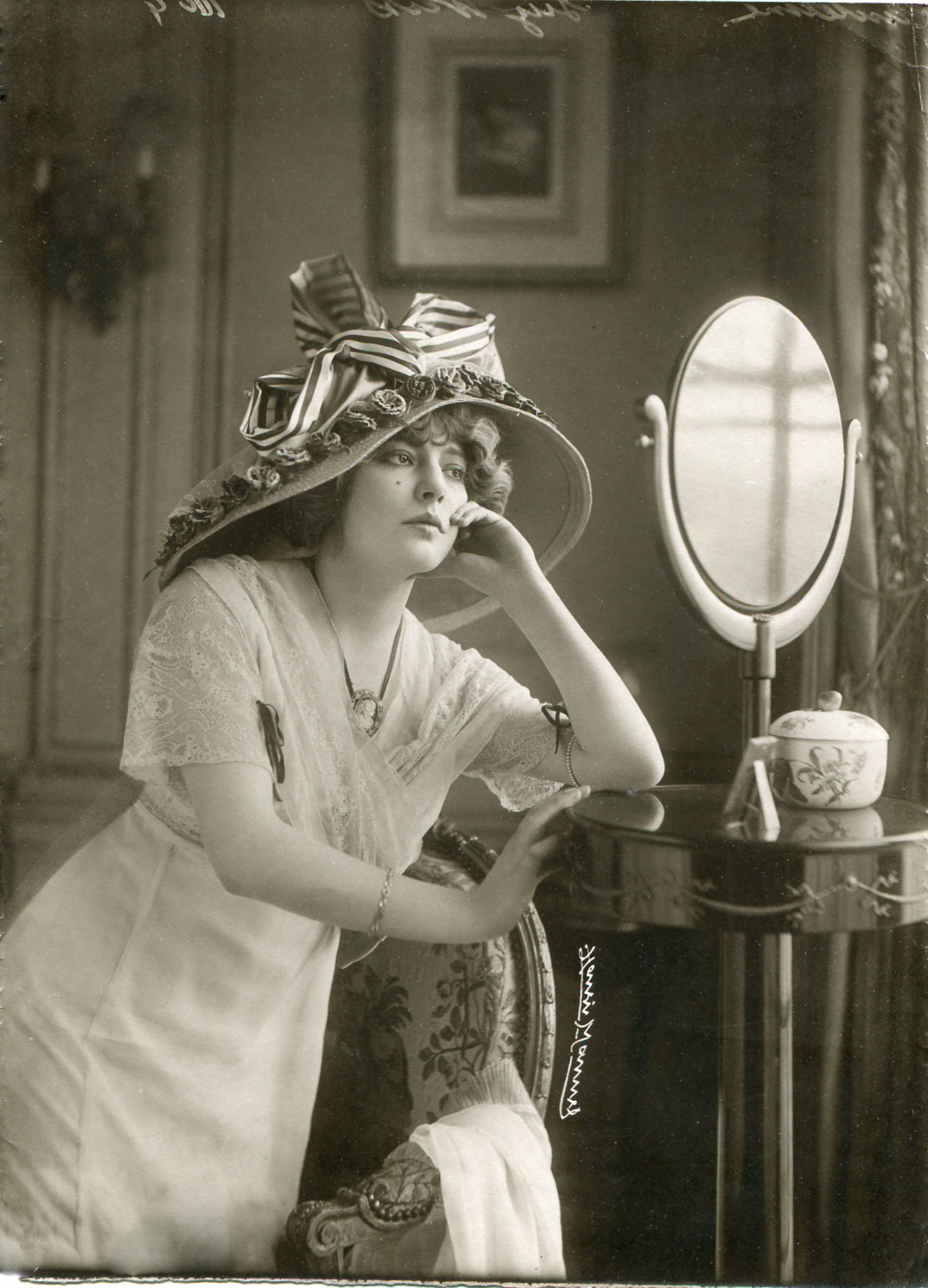 alrededor de 1900